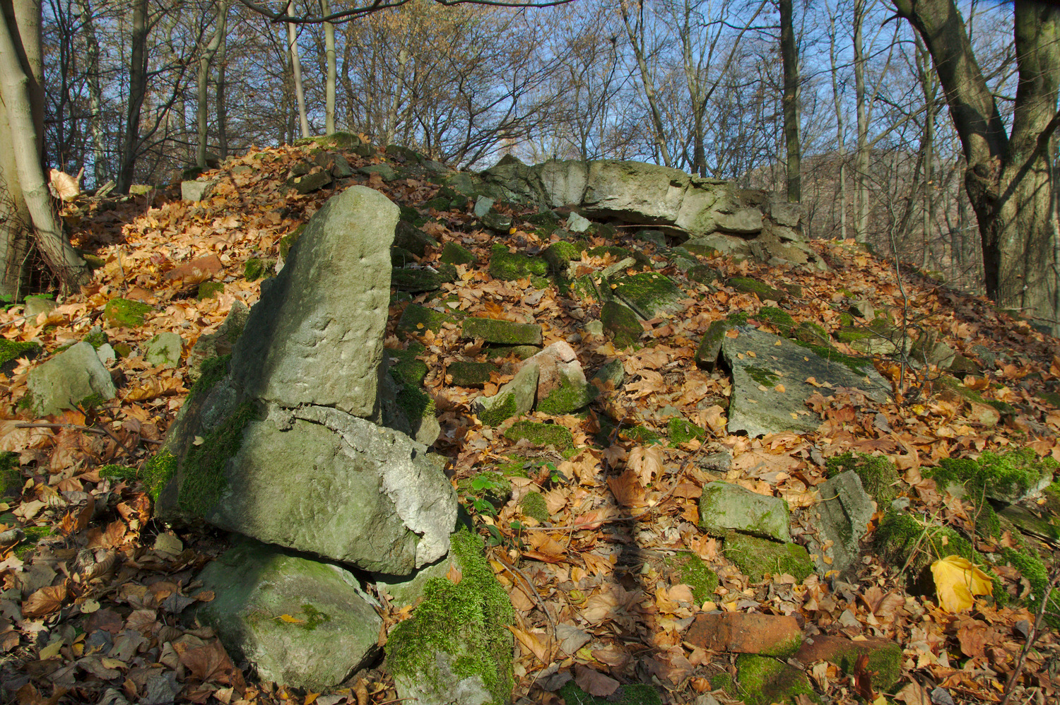 Ruins of the Libonov observatory in a forest above the village in 2015.